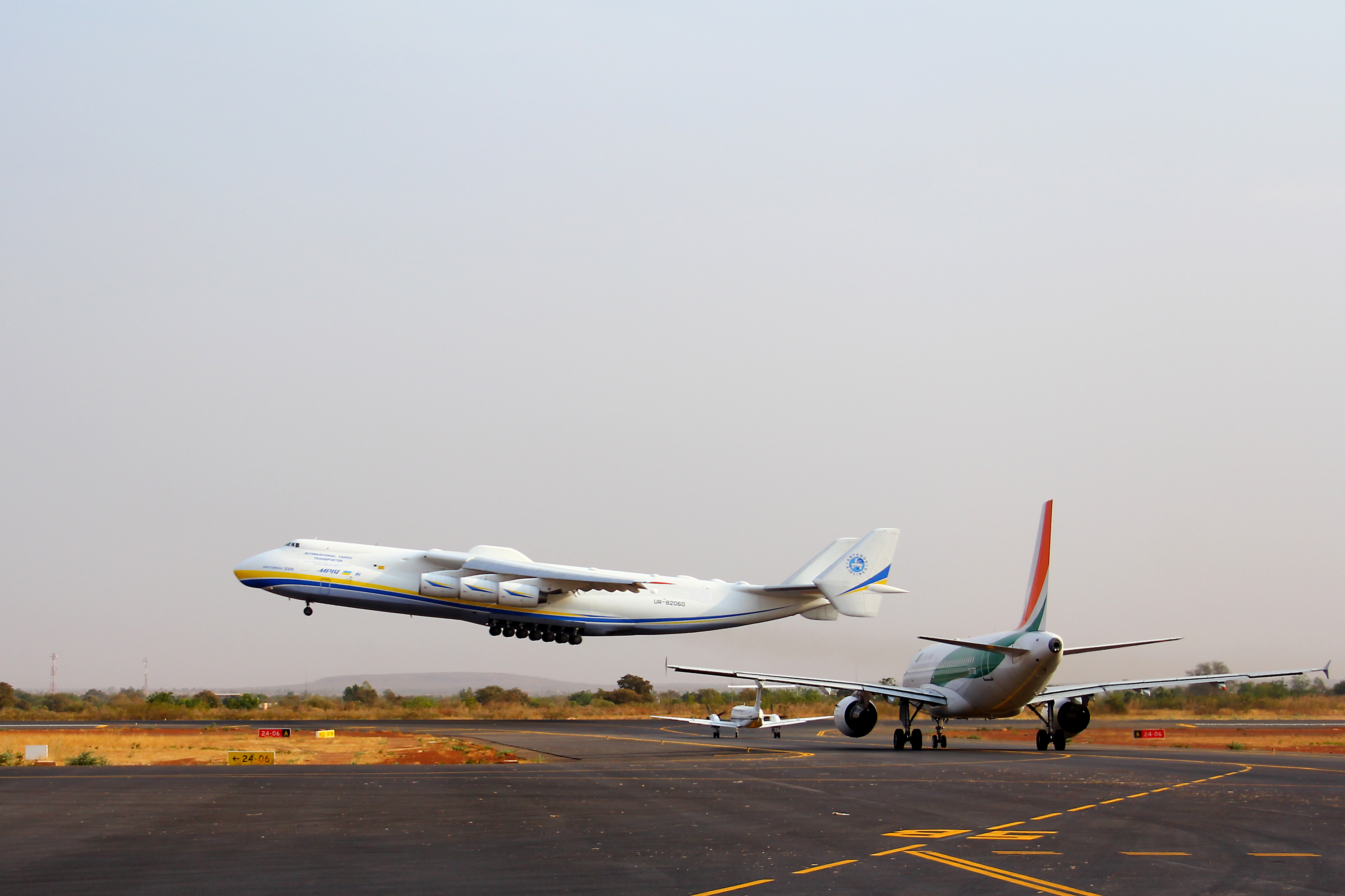 The Antonov AN-225 takes off on the Bamako International runway, Mali on January 23, 2013. The Ukrainian owned aircraft is assisting with French transportation of military vehicles, equipment, and personnel into Bamako, Mali.